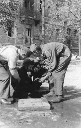 Warsaw Uprising: insurgent from "Szwoleżer's" unit, part of "Baszta" Regiment from z Mokotów district, after dozen hour trip trough sewers to Śródmieście district, is coming out on corner of Wilcza Street and Aleje Ujazdowske. Soldiers helping are: "Zemsta" i corporal "Prus".